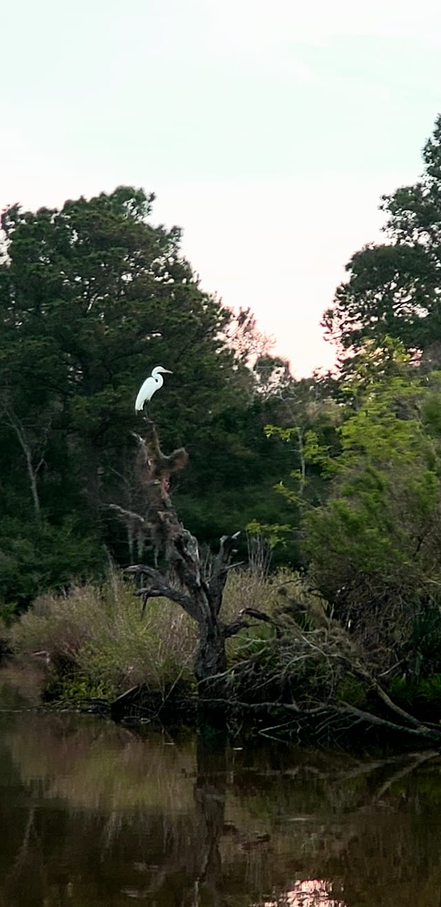 Bird Nesting on Dickinson Bayou. Dickinson, Texas.